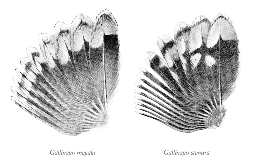 Tails of Snipe. * 1. Swinhoes's Snipe (G. megala) = Swinhoe's Snipe (Gallinago megala) * 2. Pintail Snipe (G. stenura) = Pintail Snipe (Gallinago stenura)